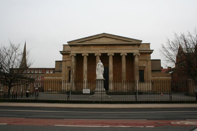 Crown Court on Foregate street Statue of Queen Victoria stands in front of Worcester Crown Court. My thanks again to Philip for the info.